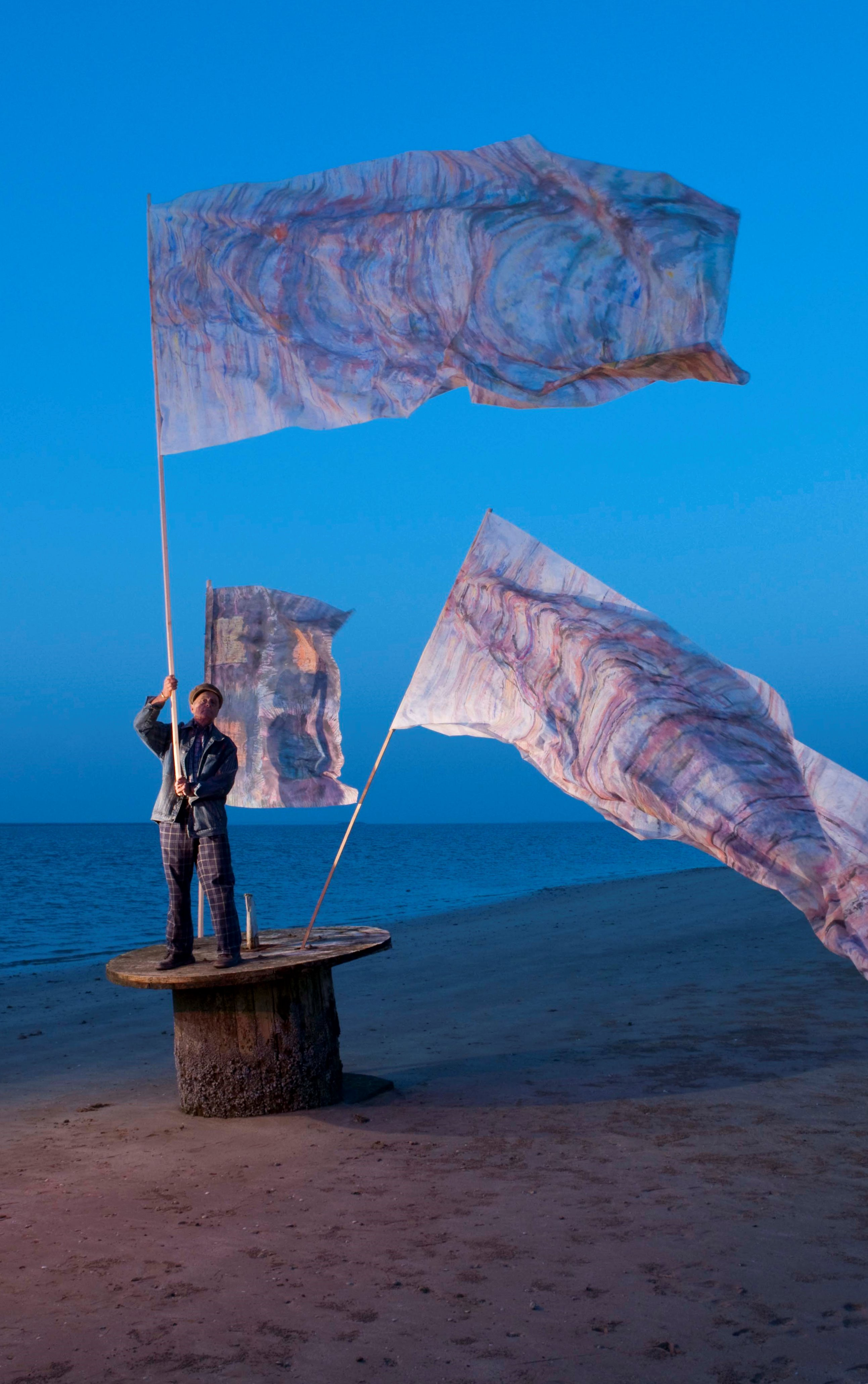 Work Hafis Bertschinger at the beach Dubai Waterfront